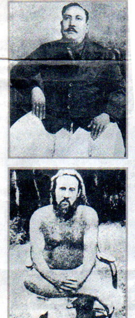 The photograph shows twin photos of Ramendranarayan Roy, prince of Bhawal estate, (currently Gazipur District, Bangladesh) and the person who had claimed to be Ramendranarayan Roy in the famous Bhawa case. The person above wearing coat and lungi is Ramendranarayan Roy. And the person below, with bare chest, is the Claimant.